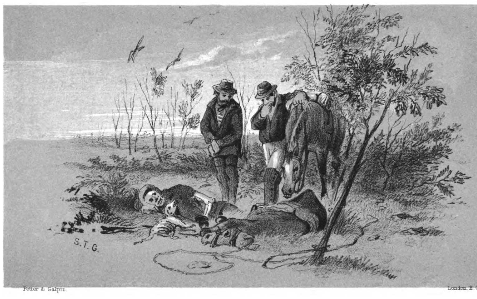 The found bushman